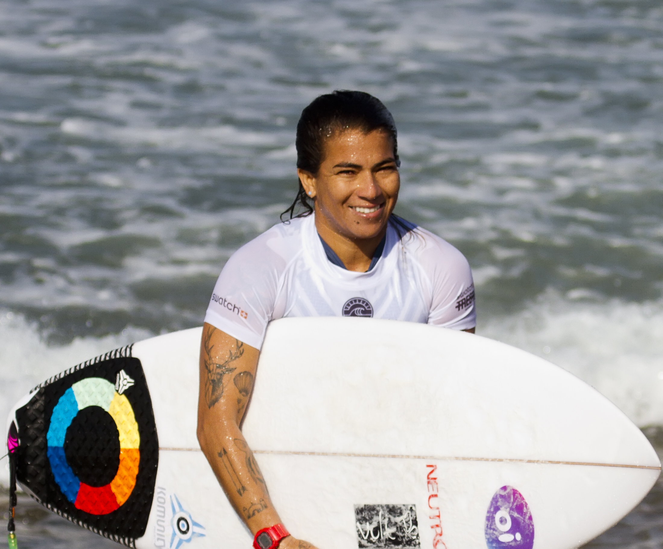 Silvana Lima with a smile on her face after winning her heat at the Swatch Pro 2017.